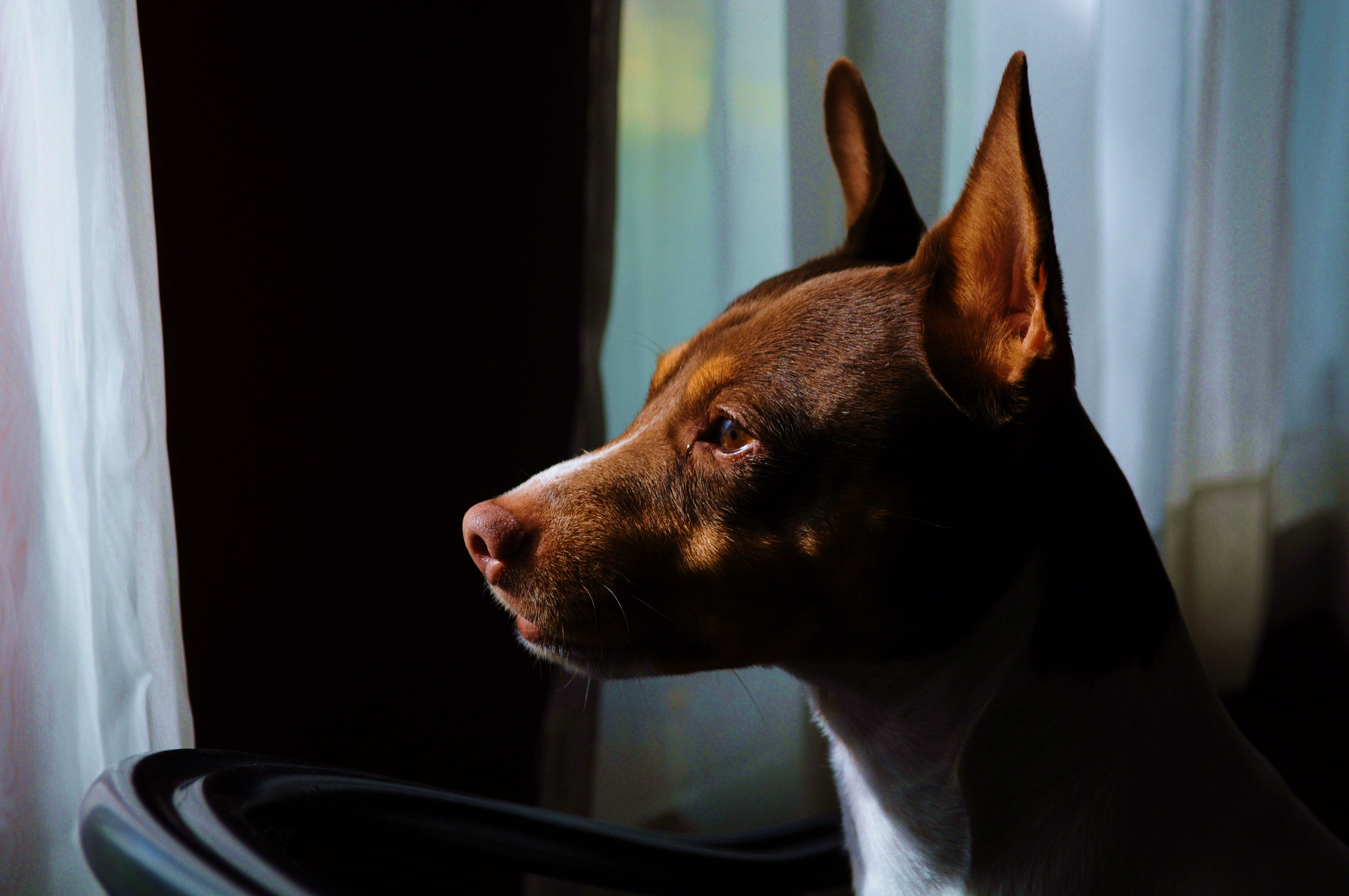 Tri-Chocolate coat